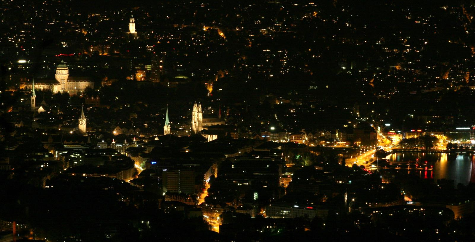 Night view of Zürich from Uetliberg.